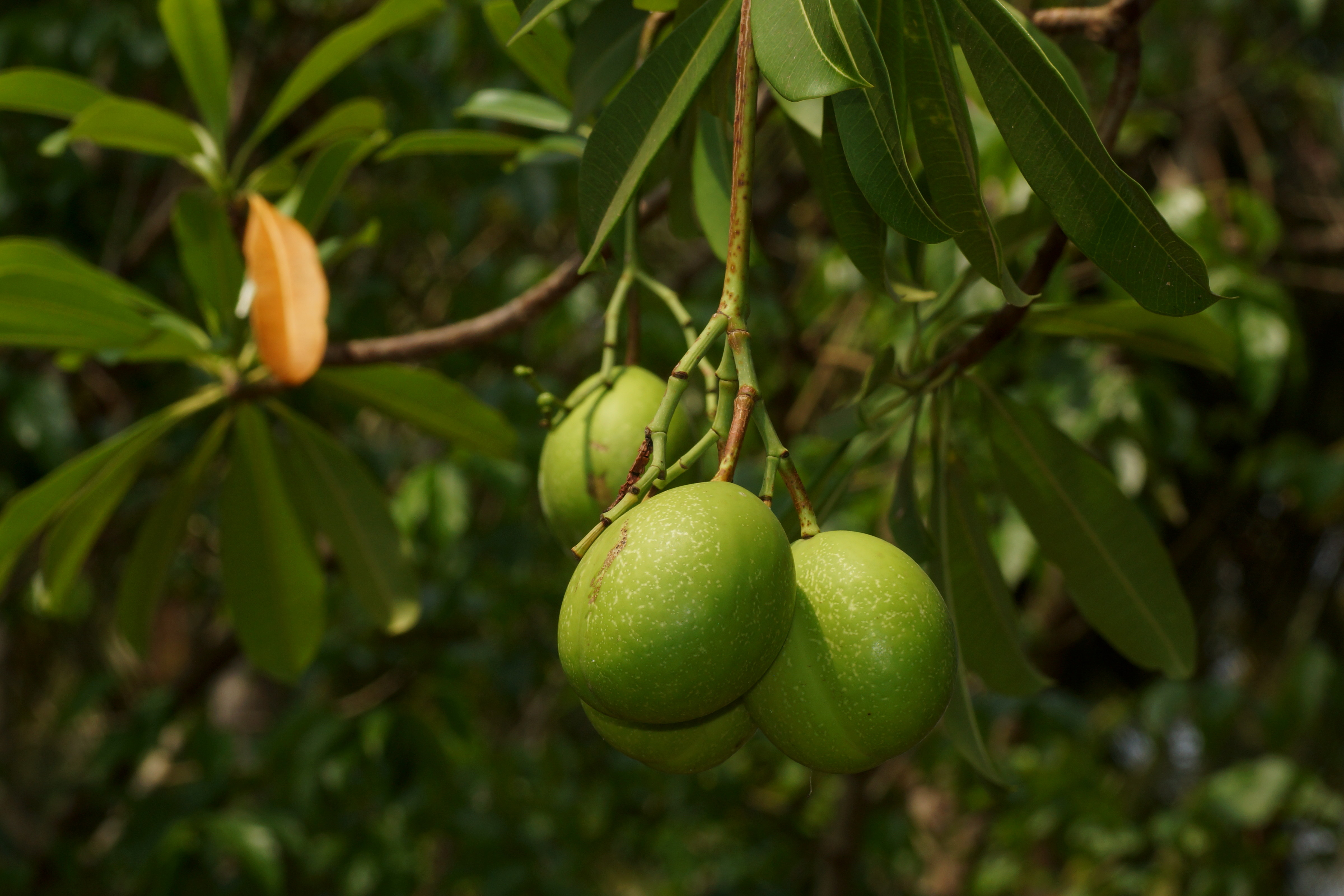 Odalonga